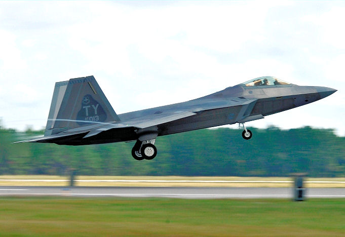 43d Fighter Squadron Lockheed Martin Block 10 F-22A Raptor 00-4013 The aircraft crashed near Tyndall AFB on 15 November 2012. The pilot ejected safely.